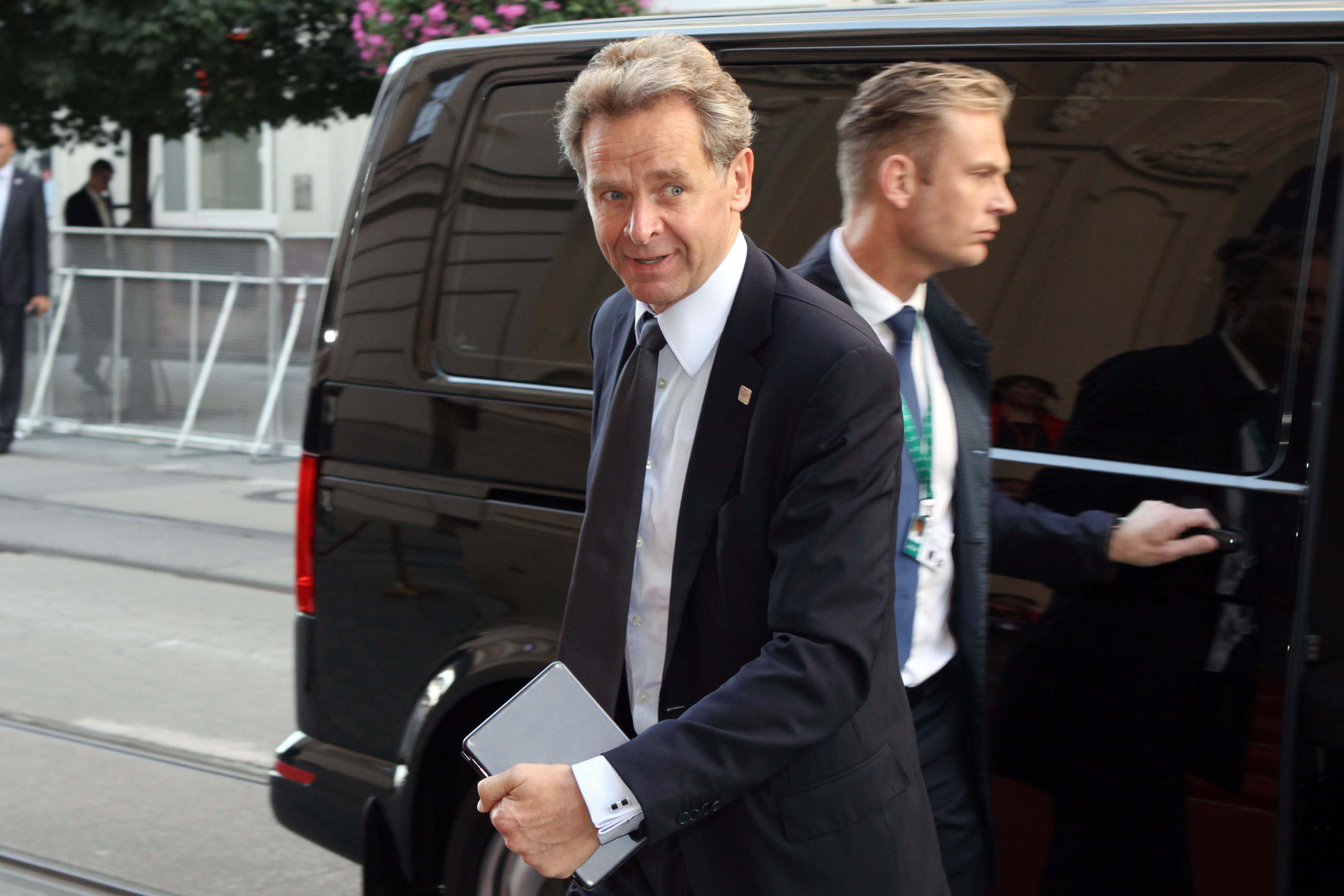 International Monetary Fund, Mr. Poul M. Thomsen, Director of the IMF's European Department Informal Meeting of Ministers for Economic and Financial Affairs (Informal ECOFIN) Photo: Andrej Klizan